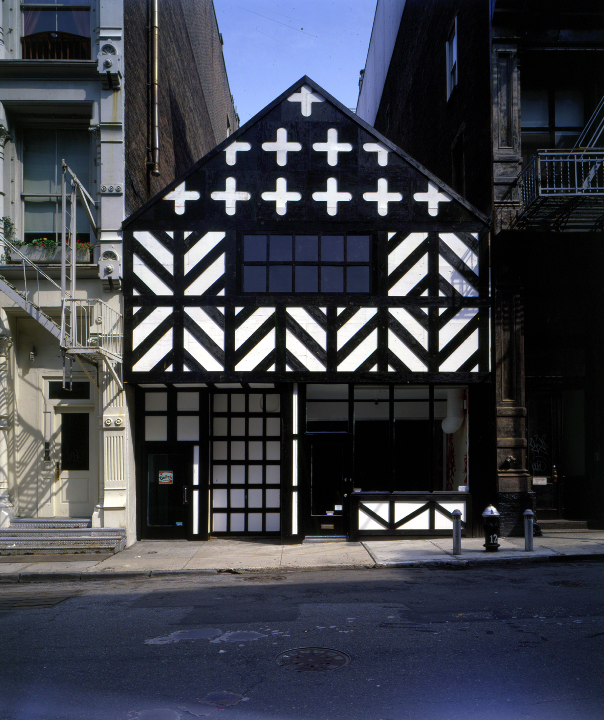 "Super Tudor," an installation by Richard Woods at Deitch Projects' 76 Grand Street location (September 5–October 19, 2002)